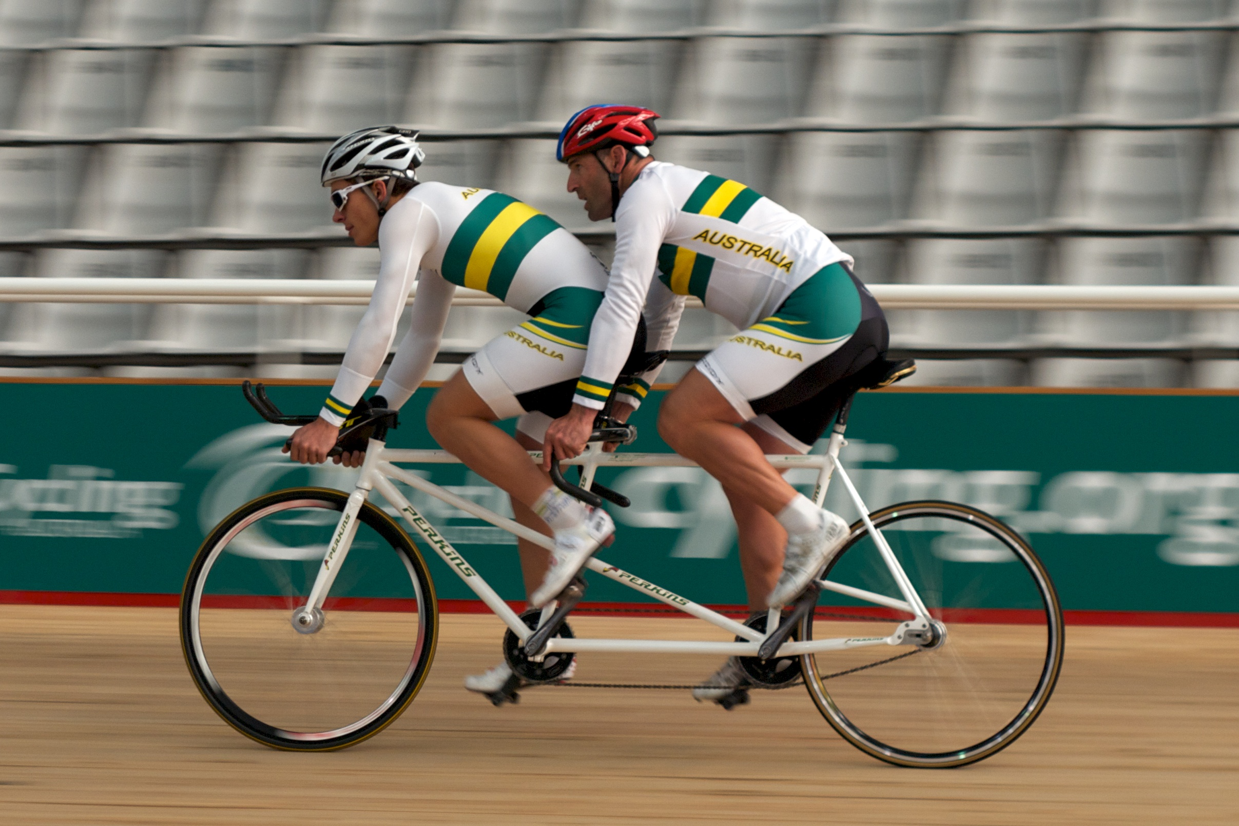 Scott McPhee and Kieran Modra riding at the announcement of the 2012 Australian Paralympic cycling team.